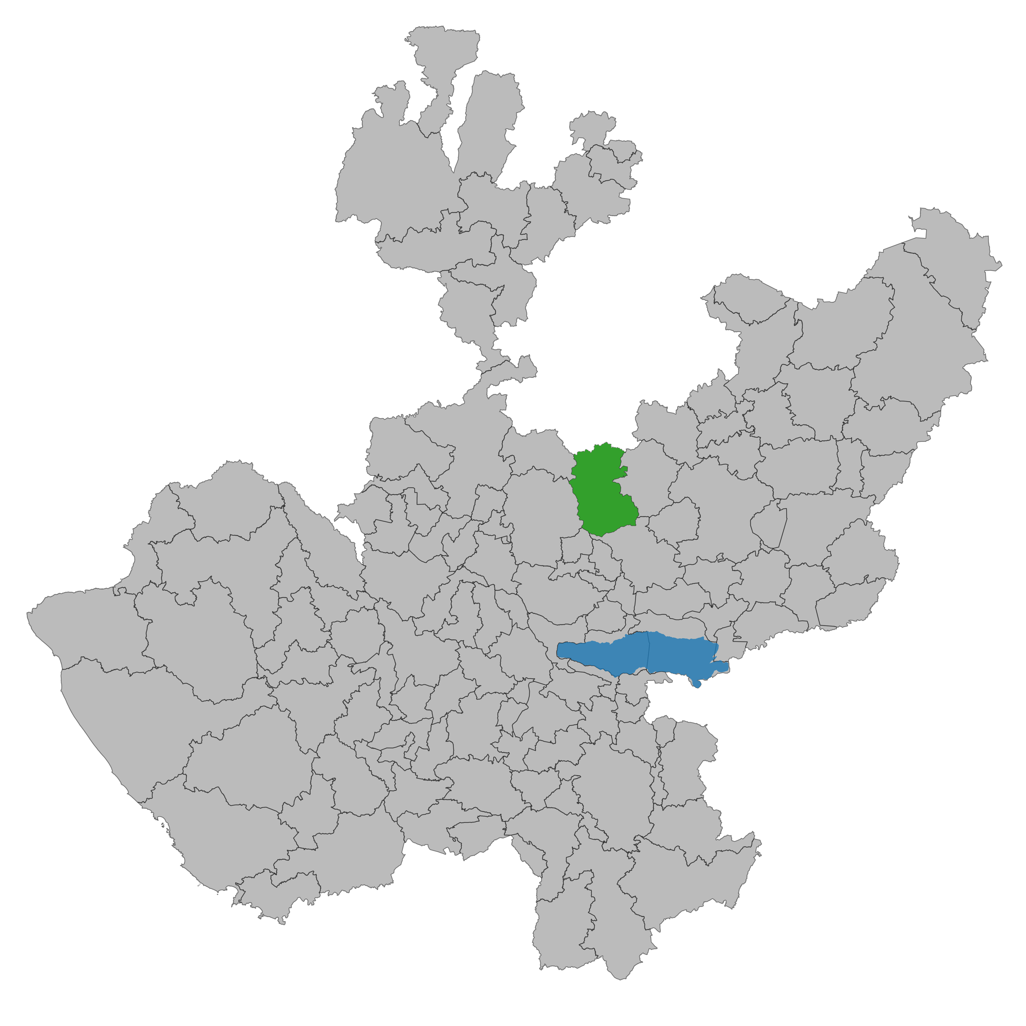 Municipality of Jalisco. Prepared with the software QGIS version 2.8.2 Wien & with information of SCINCE 2010 version 05/2013